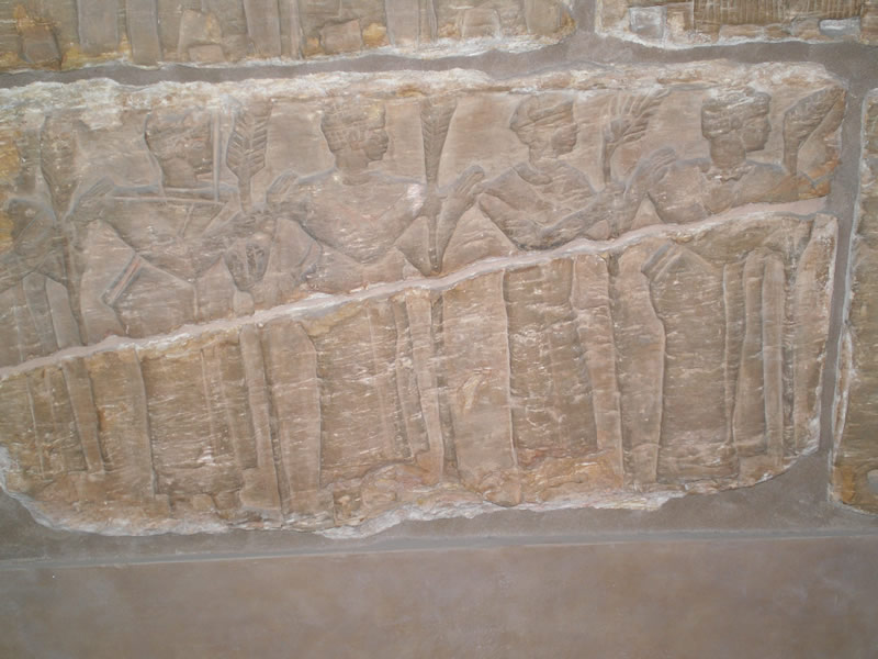 Part of decoration of the wall in a pyramid chapel of Meroe, now British Museum, perhaps belonging to Shanakdakhetothe